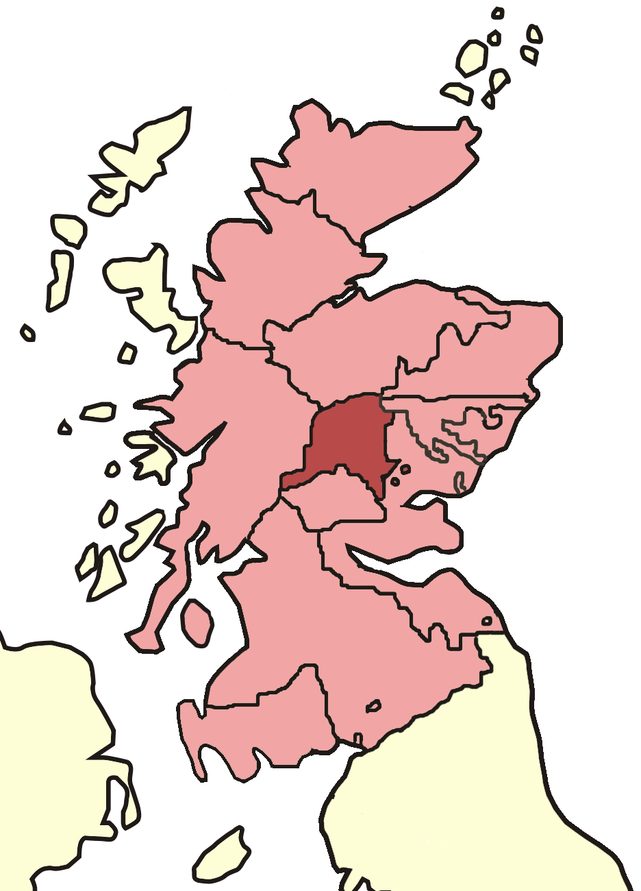 Diocese of Scotland in the reign of king David I. Based on William Forbes Skene's map of 1887.